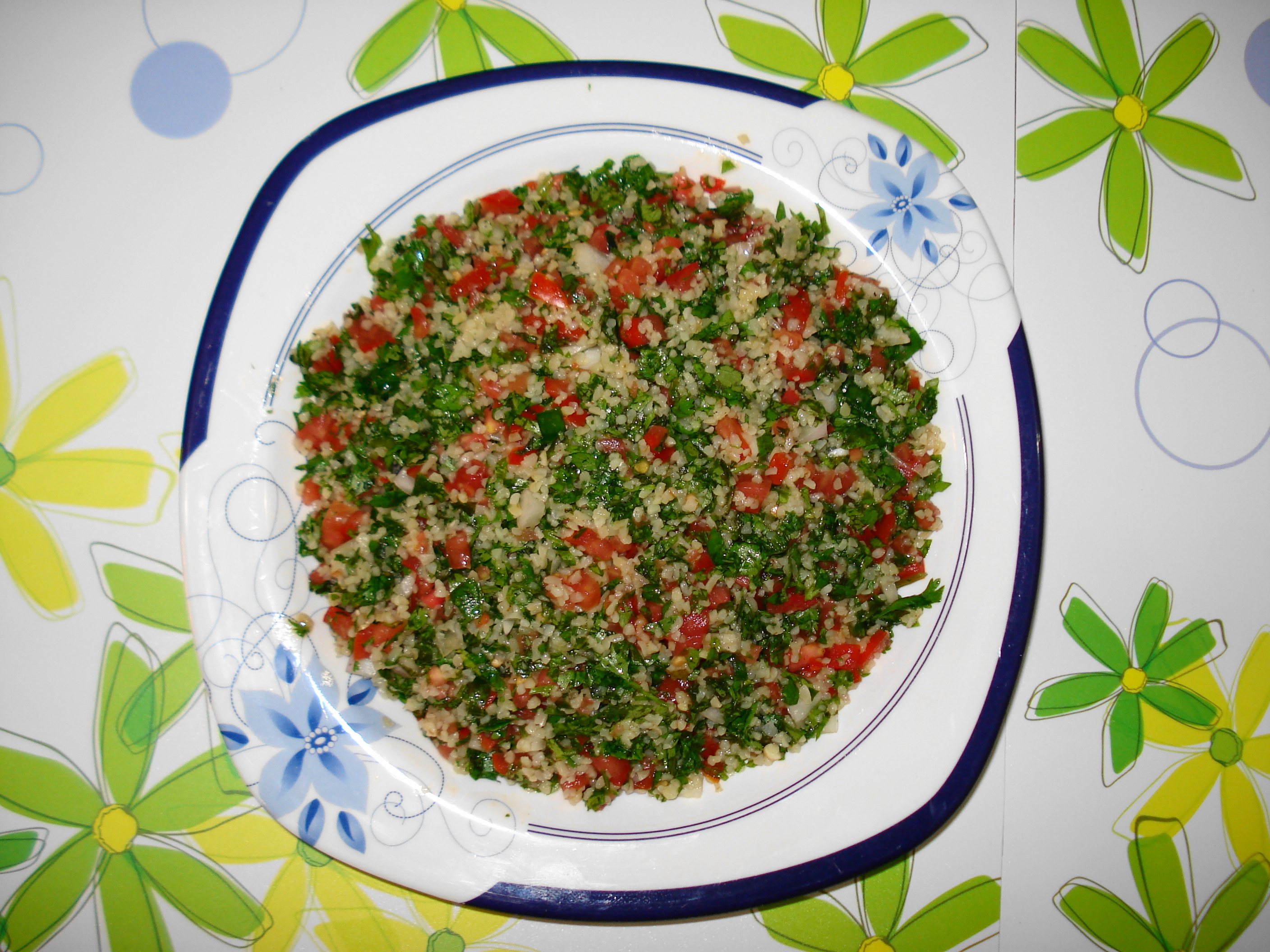 Tabouleh